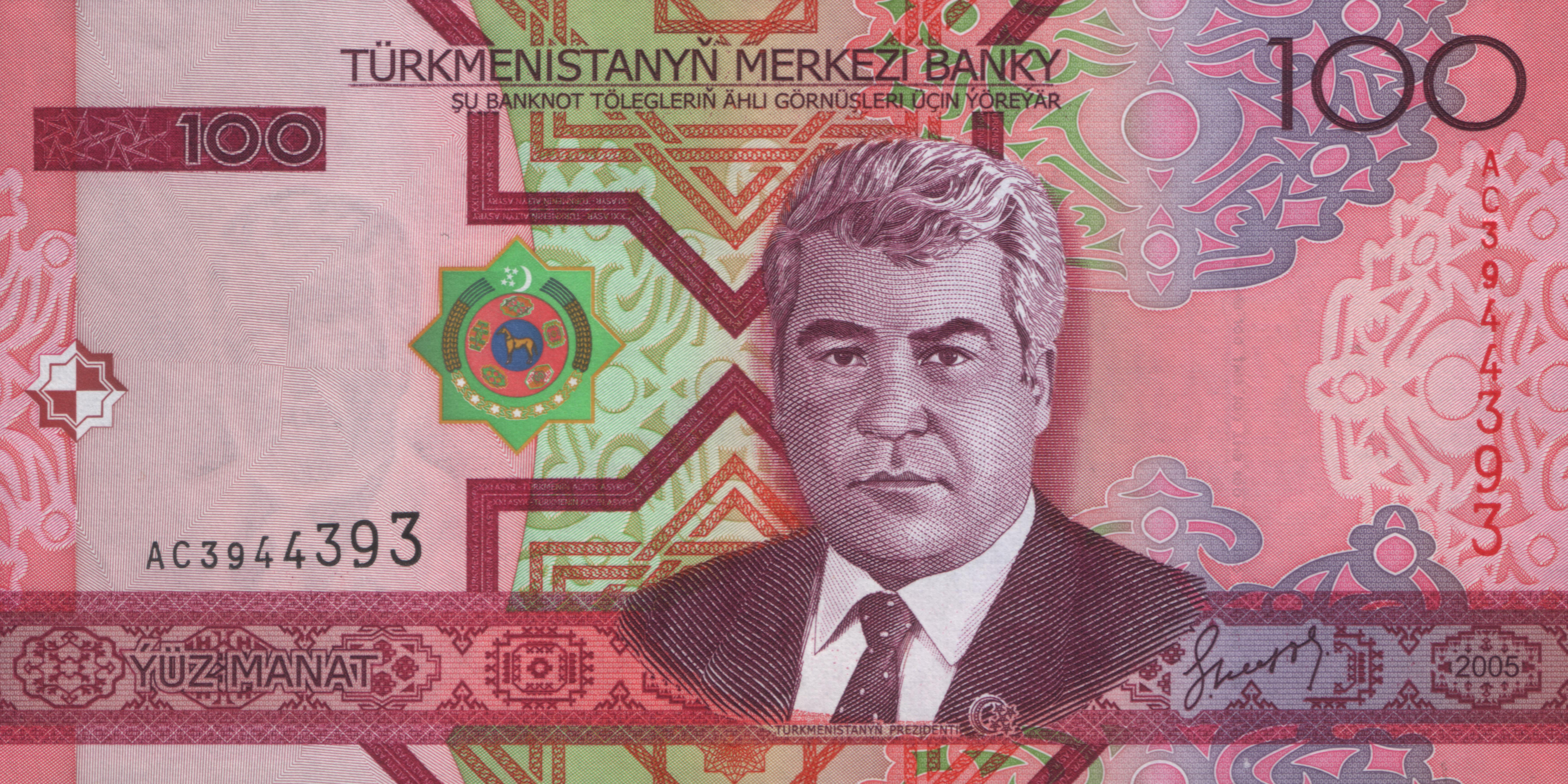 100 manats of Turkmenistan (2005)